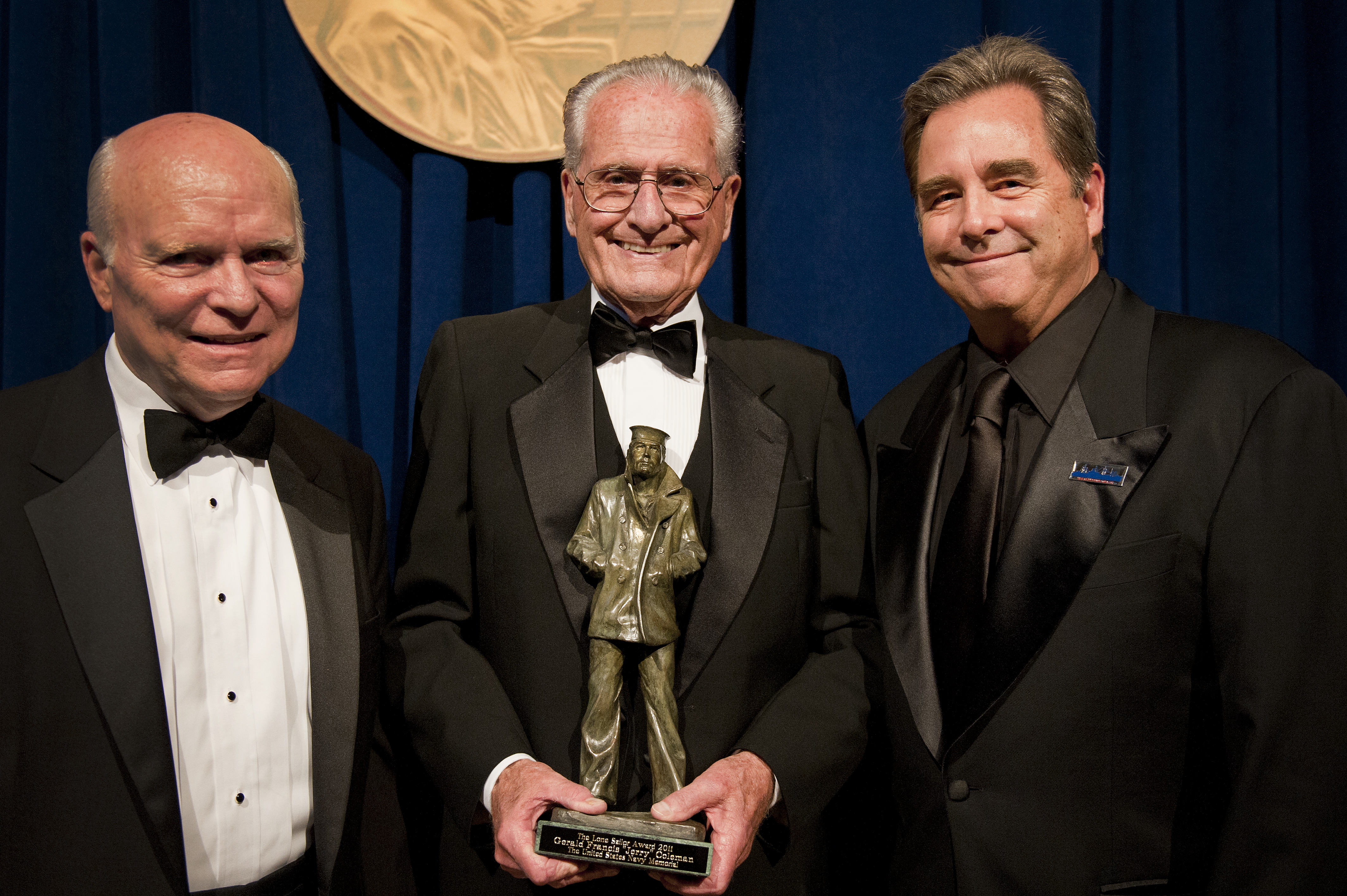 WASHINGTON (Sept. 22, 2011) C-SPAN founder Brian Lamb, left, retired Major League Baseball player Jerry Coleman and actor Beau Bridges are recipients of the 2011 Lone Sailor Award. Bridges also accepted for his brother, Jeff Bridges, and their father, Lloyd Bridges.The recipients were recognized for their achievements following their military service during a dinner at the National Building Museum in Washington D.C. (U.S. Navy photo by Mass Communication Specialist 3rd Class Mikelle'D. Smith/Released)